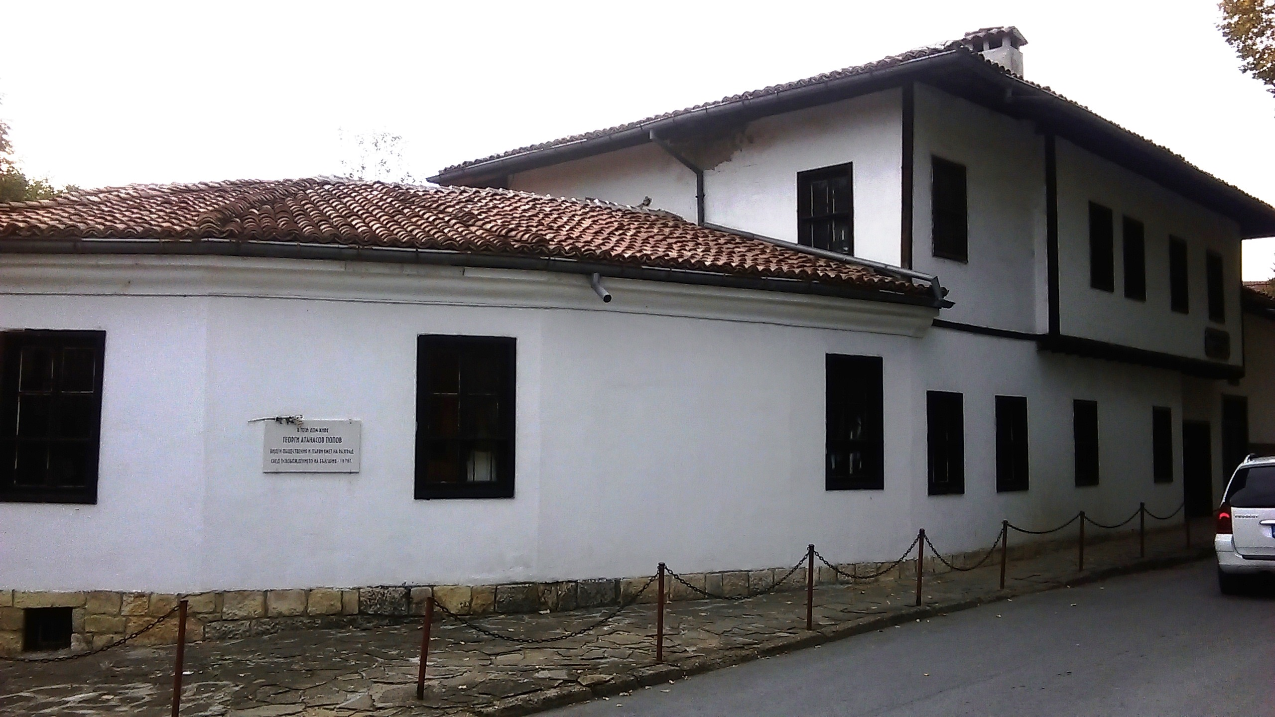 Home of Georgi Popov, the first mayor of Razgrad